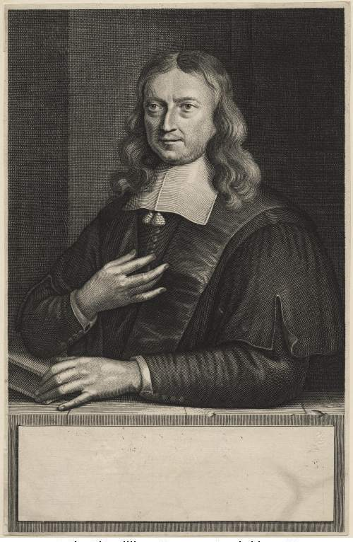 Portrait of Christophorus Wittichius (1625-1687), Dutch theologian.